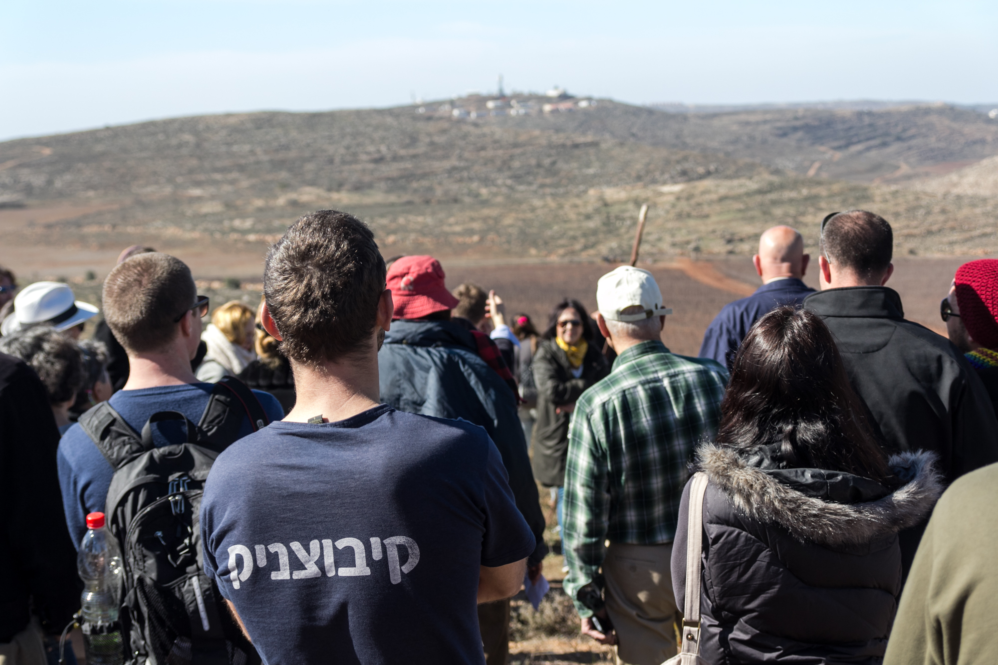 Peace Now's Price Tag tour, 31 January 31 2014. On a hill overlooking the outposts of Esh Kodesh and Ahiya and the Palestinian villages of Jalud, Salfit and Duma. Ahiya in the background.